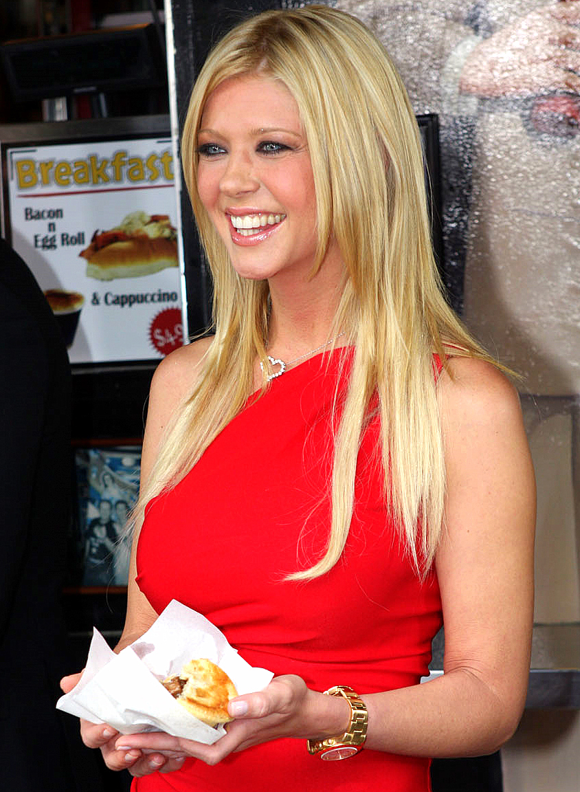 Tara Reid at the American Pie Reunion, Harry's Cafe de Wheels Sydney 2012.